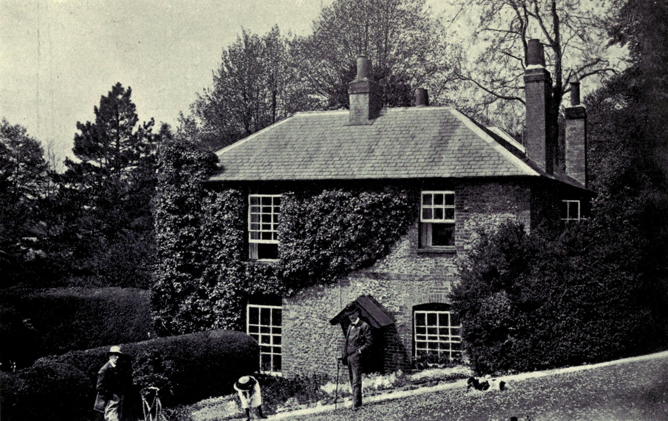 Flint Cottage, Box Hill, George Meredith's home after 1867.